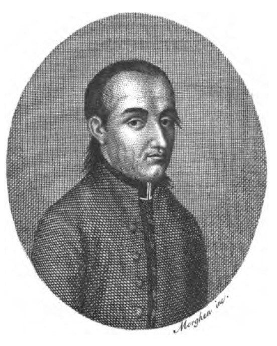 Lithography of Antonio Jerocades